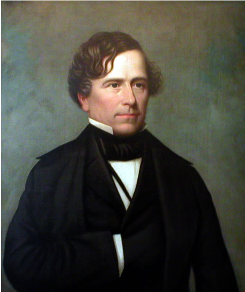 Portrait of President Franklin Pierce